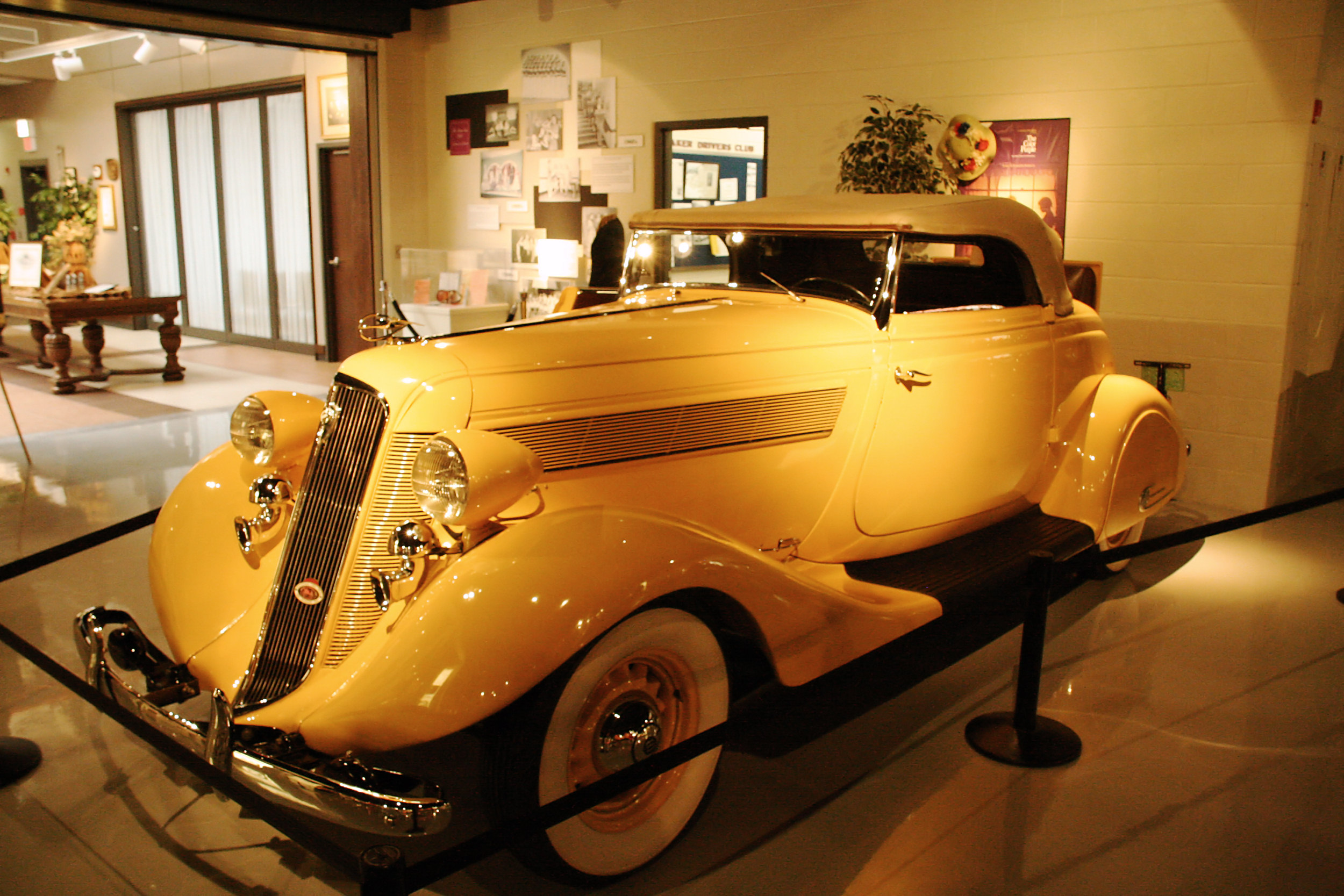 1935 Studebaker Commander coupe convertible, part of the Studebaker National Museum collection in South Bend, Indiana. Photo shot by Derek Jensen (Tysto), 2006-April-02